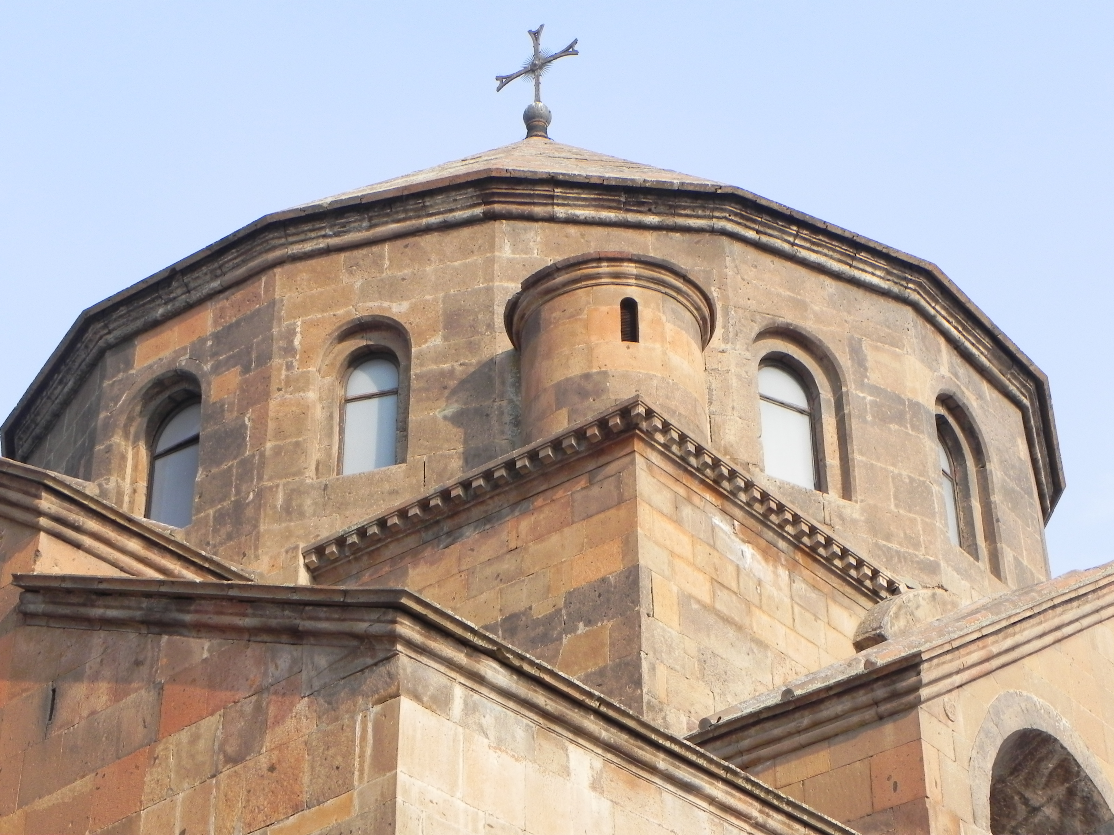 Dome of the St. Hripsime Church